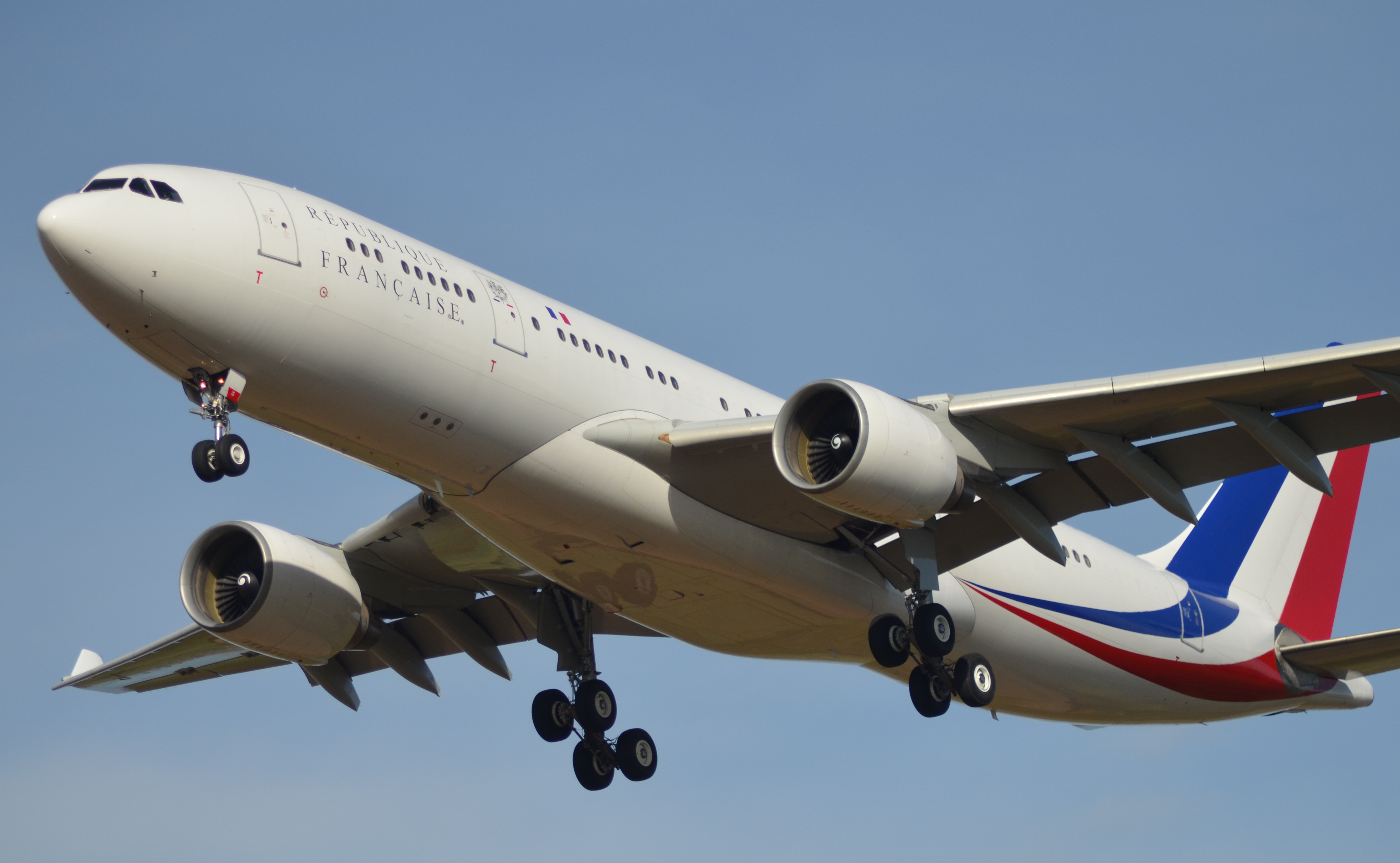 Airbus A330-323 French Air Force F-RARF